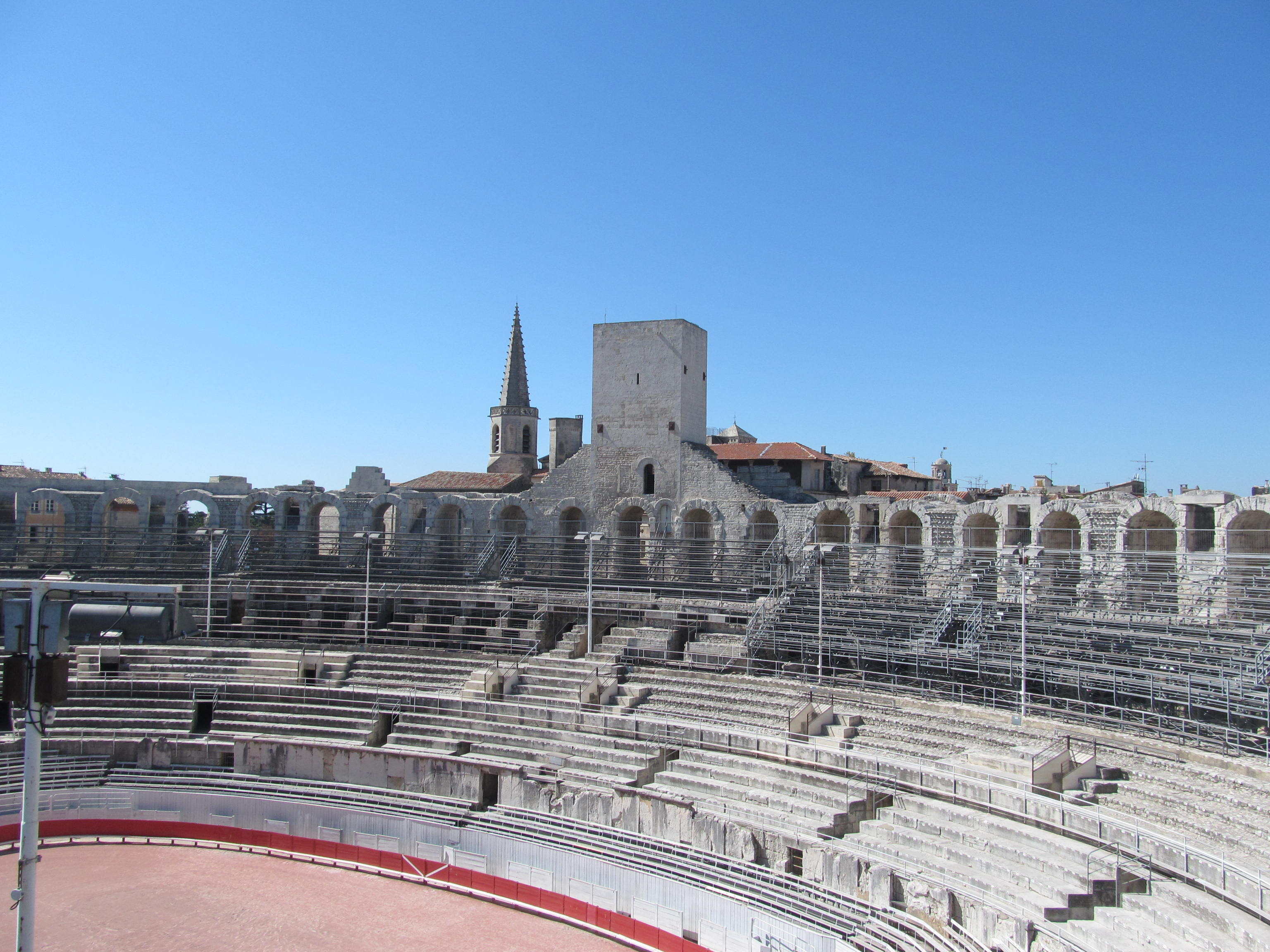 Arles Inside of Arena